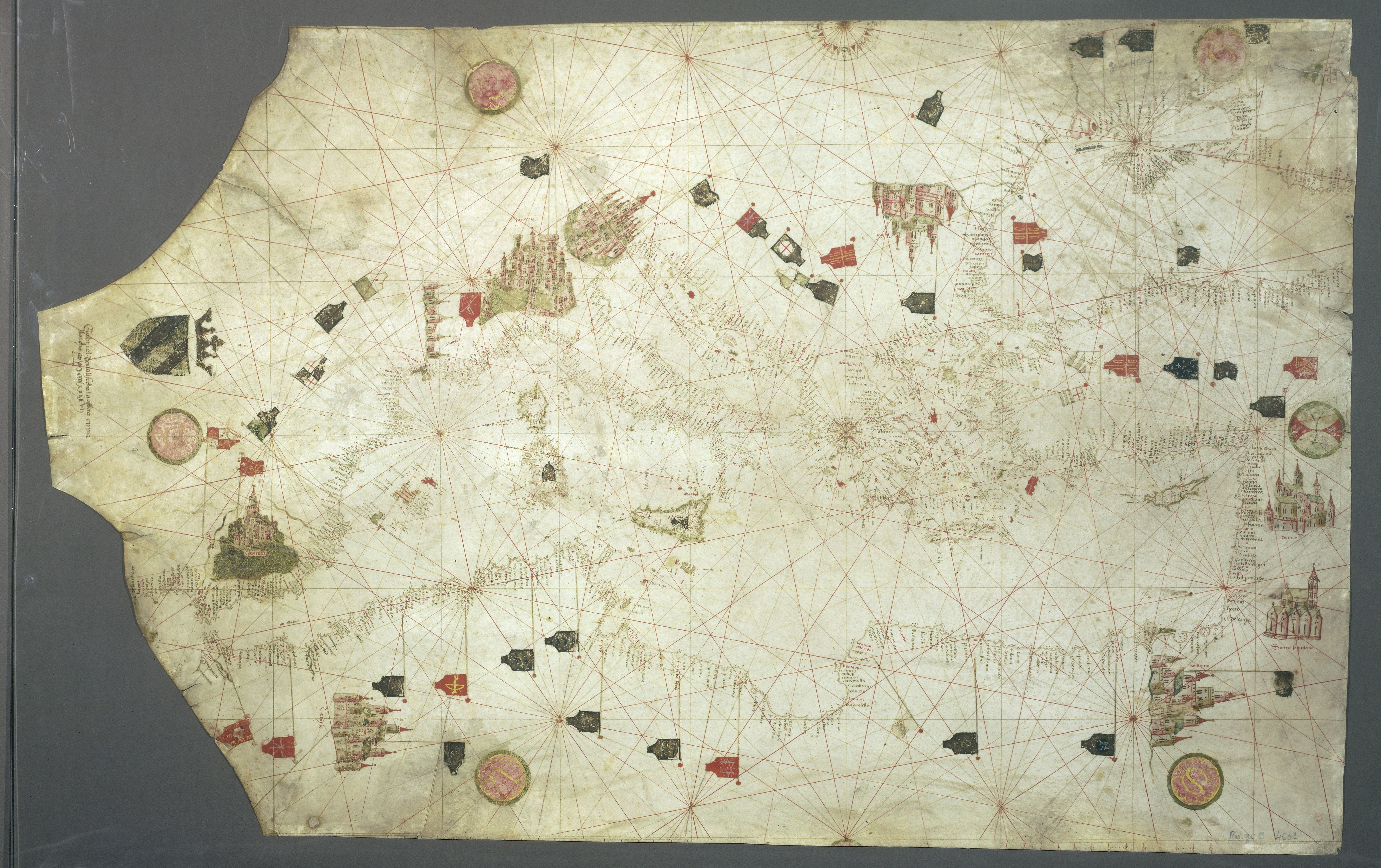 Portolan chart signed by Majorcan cartographer Gabriel de Vallseca, dated 1447, held by the Bibliothèque nationale de France in Paris, France.